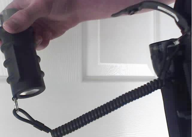 CS spray holder. Detachable from rail, held securly by a kevlar lanyard.